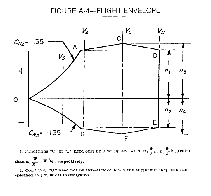 Diagram of Flight Envelope, Federal Aviation Administration, FAR.23 Appendix A Figure A-4